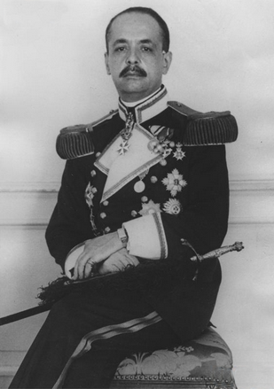 Portrait of István Csáky, Minister of Foreign Affairs from 1938 to 1941. Photograph was posted in the press over the death of Csáky on 27 January 1941.